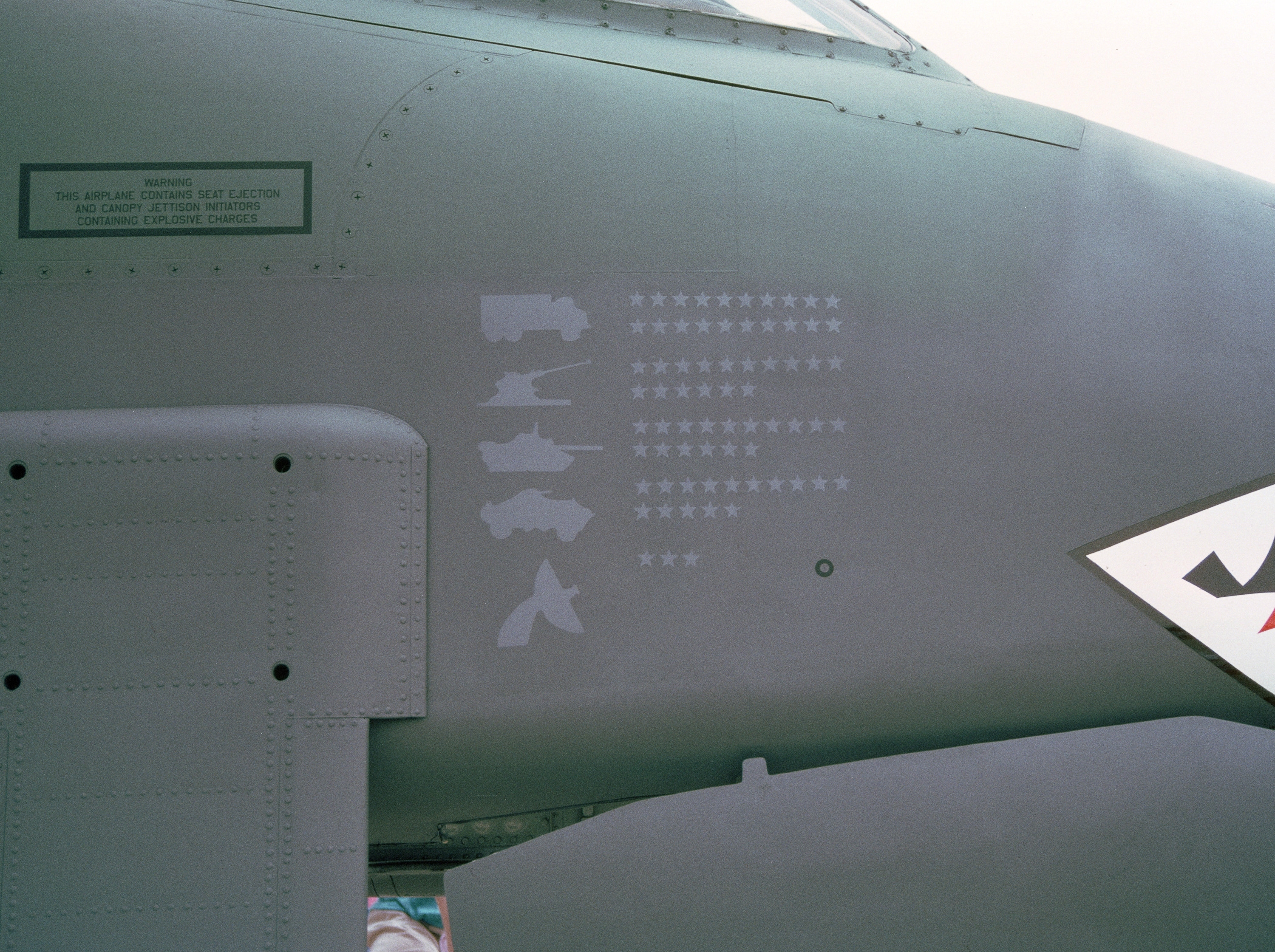 A close-up view of the markings painted on the side of a U.S. Air Force 74th Tactical Fighter Squadron, 23rd Tactical Fighter Wing, A-10A Thunderbolt aircraft on display at the 1991 Department of Defense Joint Services Open House at Andrews Air Force Base, Maryland (USA). The markings indicate the number of Iraqi trucks, artillery pieces, tanks, armored vehicles and radar sites destroyed by the aircraft during the 1991 Gulf War.